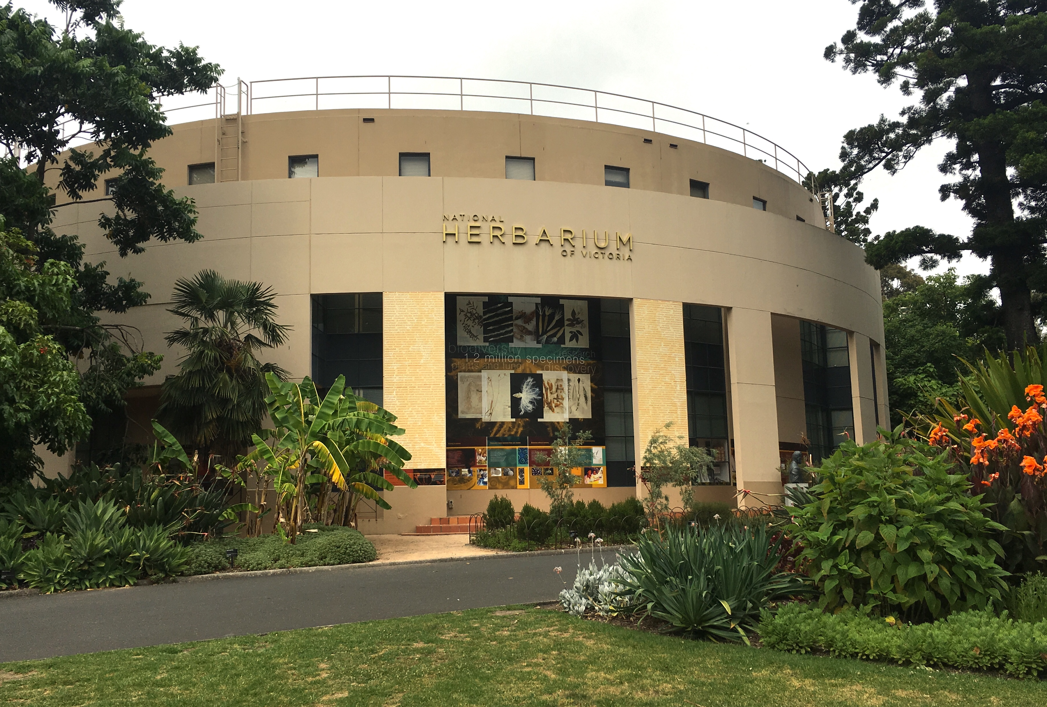 Facade of the National Herbarium of Victoria; an extension to the original building